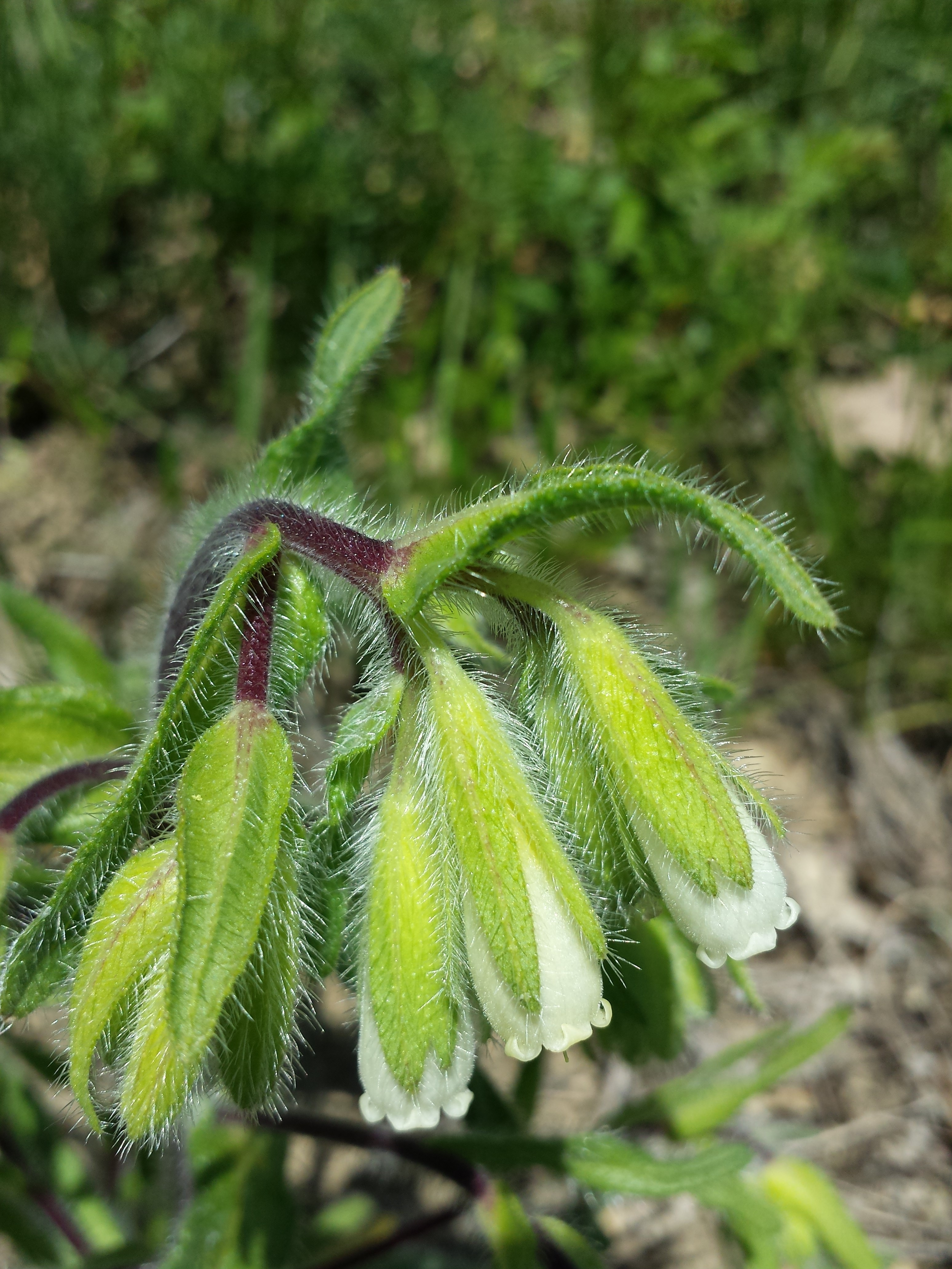 Inflorescence Taxonym: Onosma visianii ss Fischer et al. EfÖLS 2008 ISBN 978-3-85474-187-9 Location: near Gumpoldskirchen, district Mödling, Lower Austria - ca. 300 m a.s.l. Habitat: meadow/border of a wood